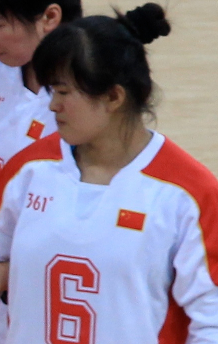 Ju Zhen